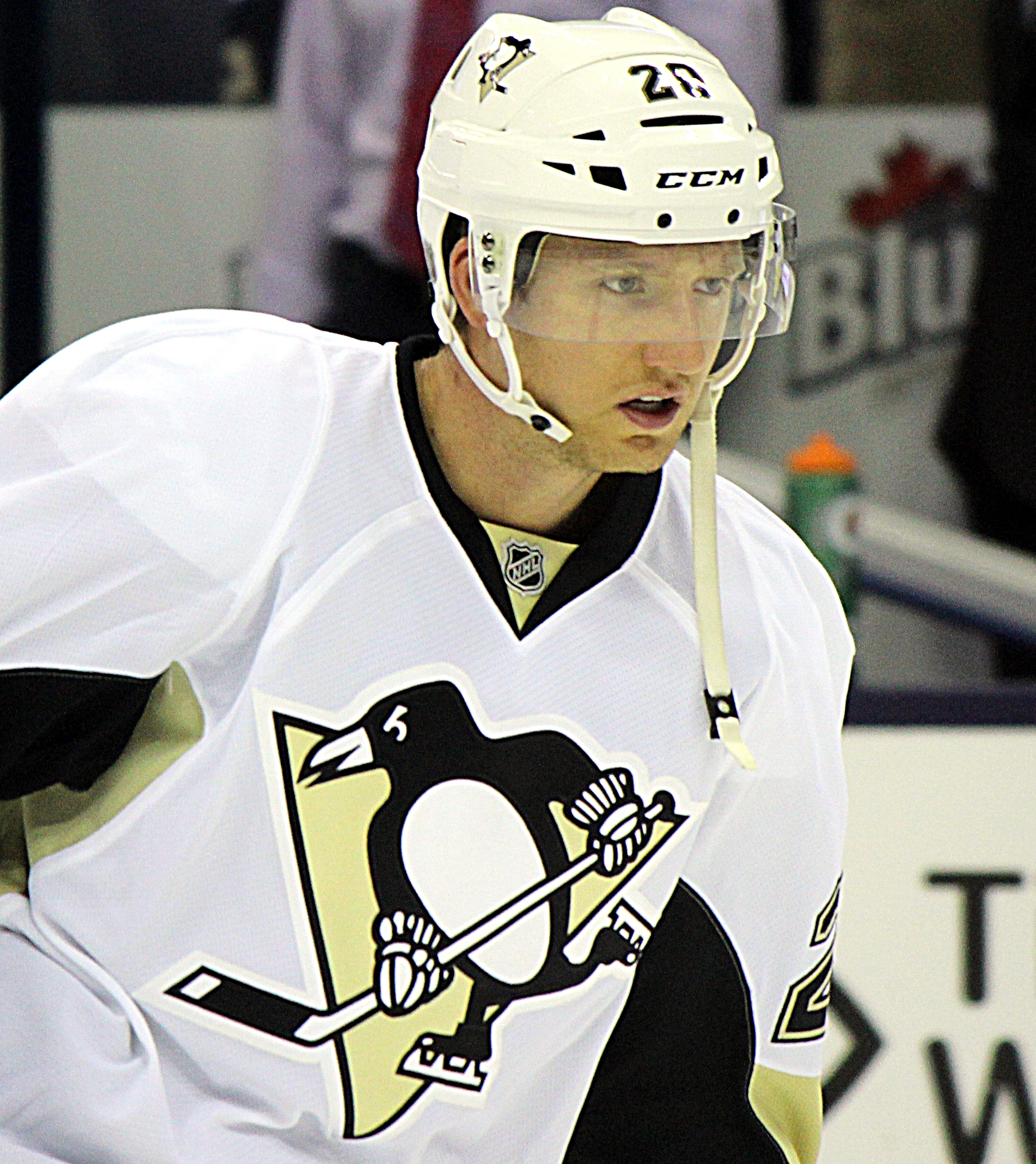 Pittsburgh Penguins forward Rob Klinkhammer during a game against the Columbus Blue Jackets, December 13, 2014, at Nationwide Arena in Columbus, OH.